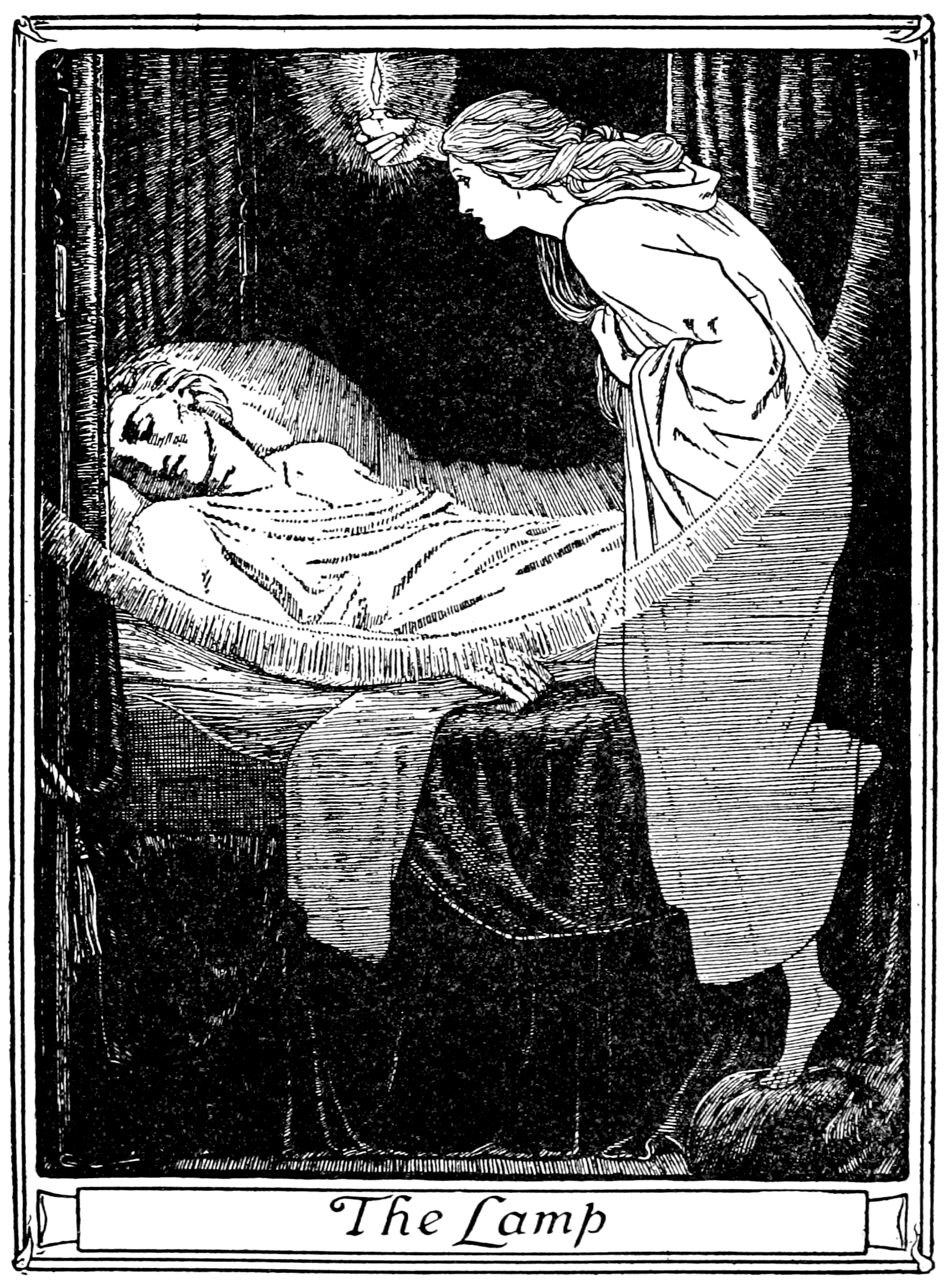 Illustration from a book of fairy tales from Europe, translated into english